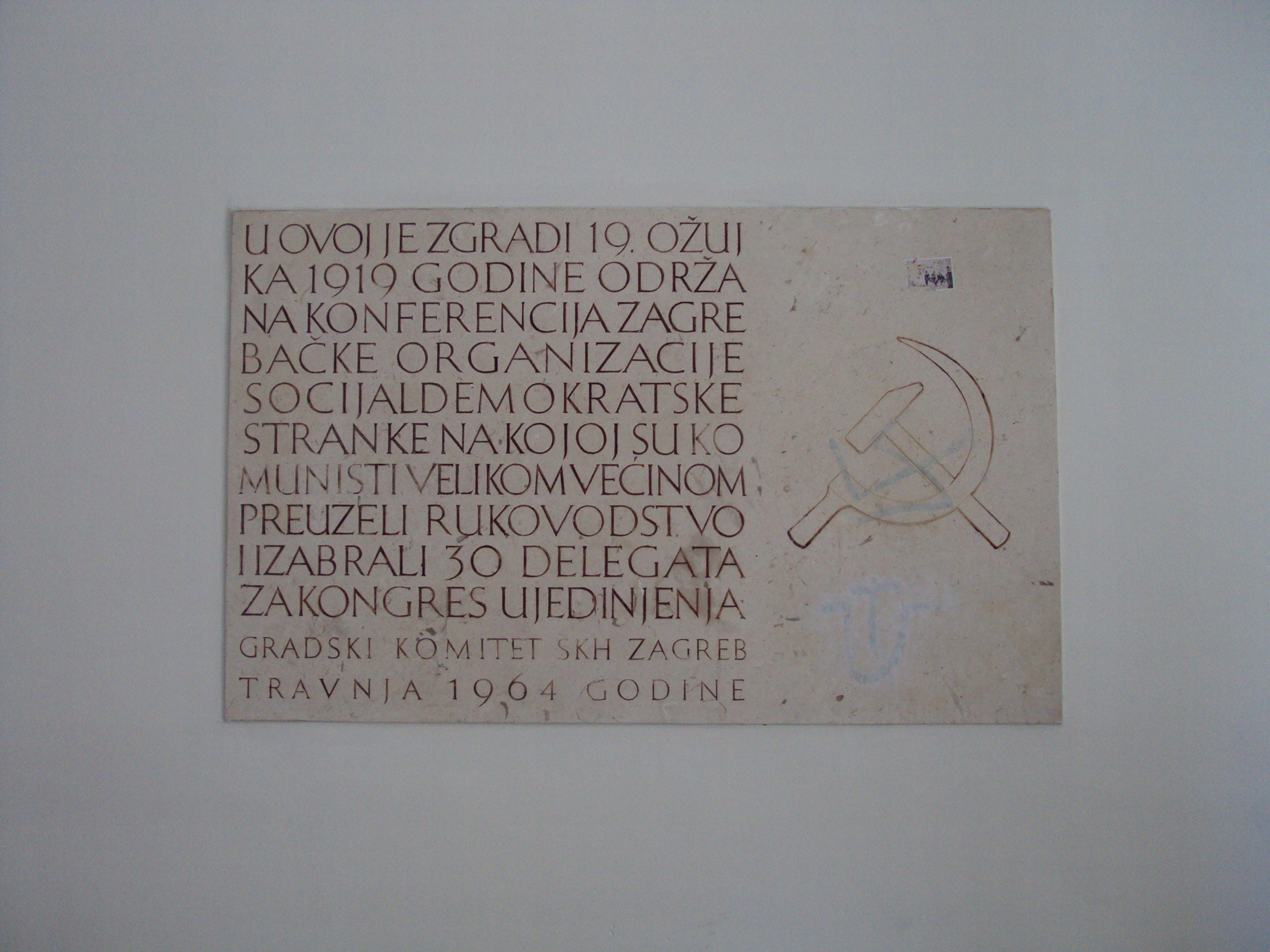 Memorial plaque of the conference of the Socialdemocratic party of Croatia and Slavonia in 1919, Zagreb.